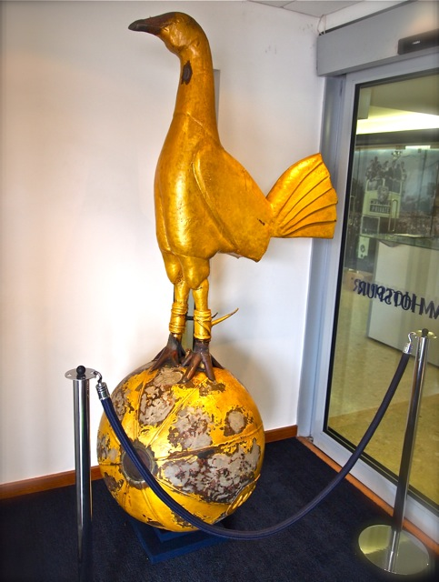 Spurs cockerel on a ball, originally placed on top of the West Stand in 1910, cast by William James Scott. It has now been moved to the Lilywhite House